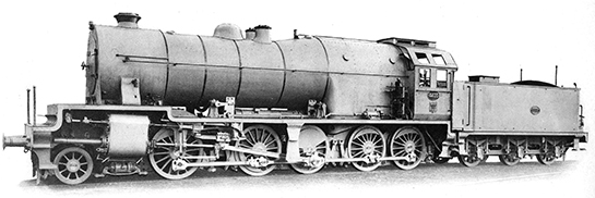 Belgian State Railways Type 36, 2-10-0 locomotive